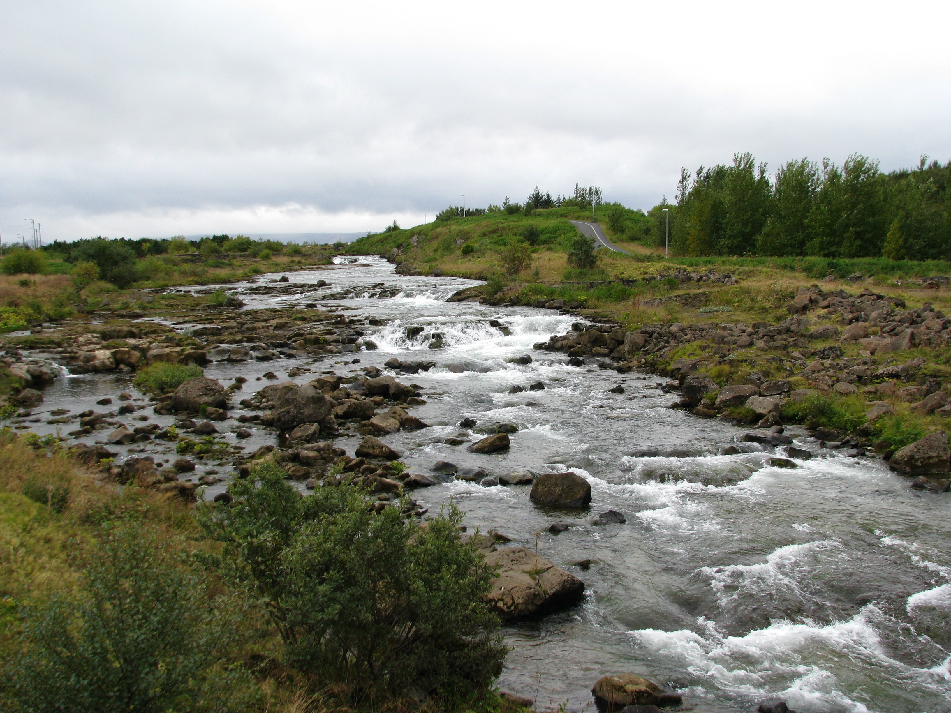 The Ellidaár, a river in Reykjavík, Iceland.